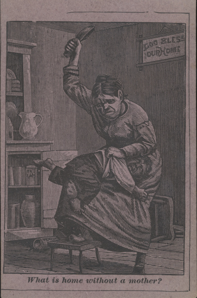 Persistent URL: Subject (TGM): Humorous pictures; Spanking; Child discipline; Children; Boys; Women; Family; Domestic life; Premiums; Tableware; Tea industry